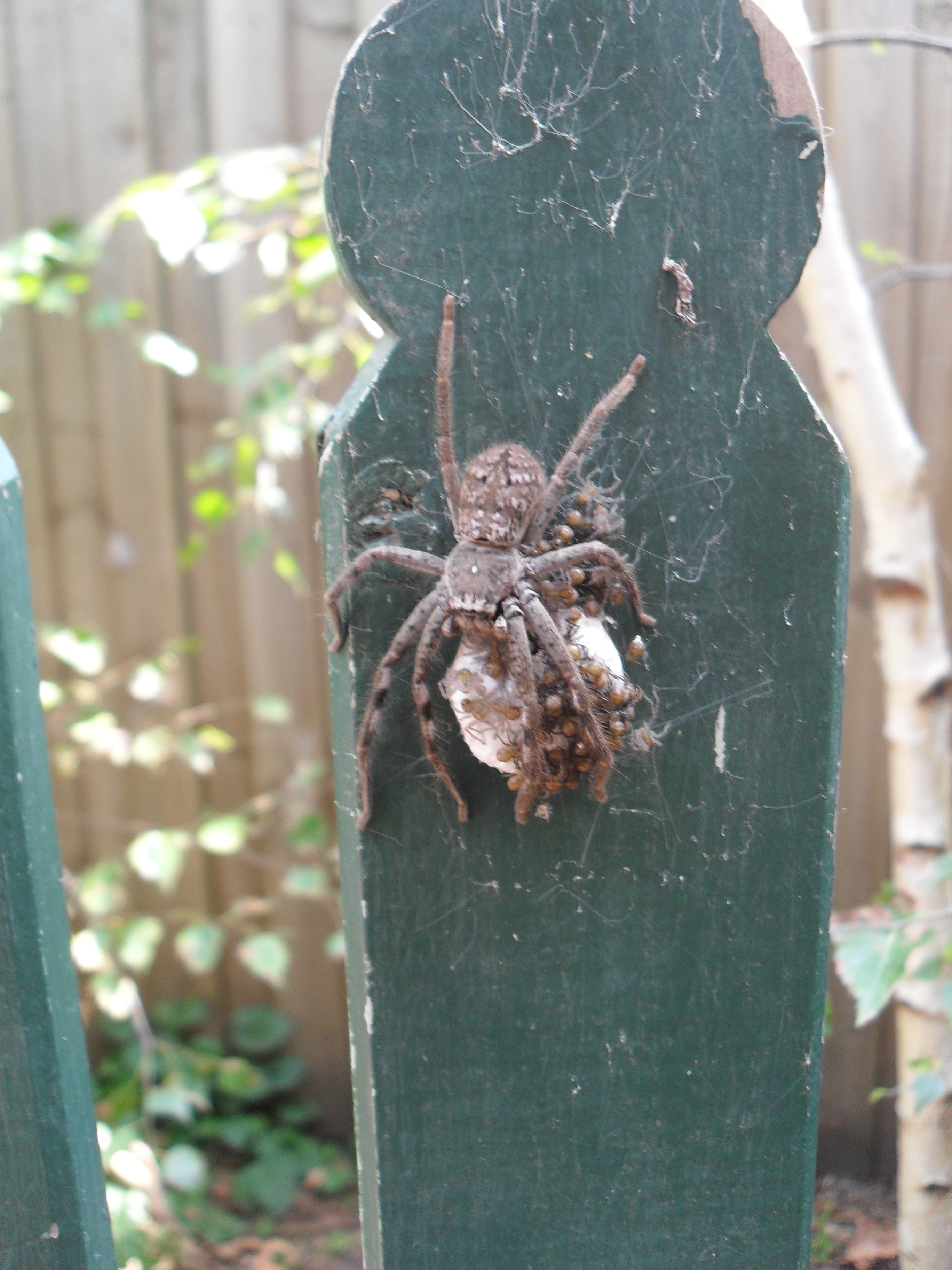 Huntsman spiders (Sparassidae, formerly Heteropodidae)egg sac hatching babies January 2011, Melbourne, Australia